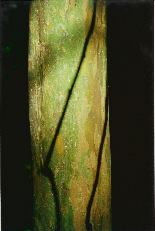 Python Tree at Hayters Hill near Byron Bay, Australia